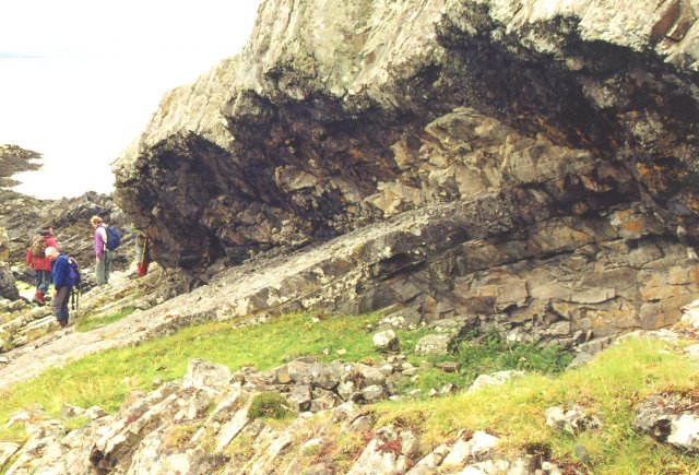 Cone sheet at Mingary. This sloping sheet of rock is harder rock intruded in a crack round the central core of a volcano about 50 million years ago